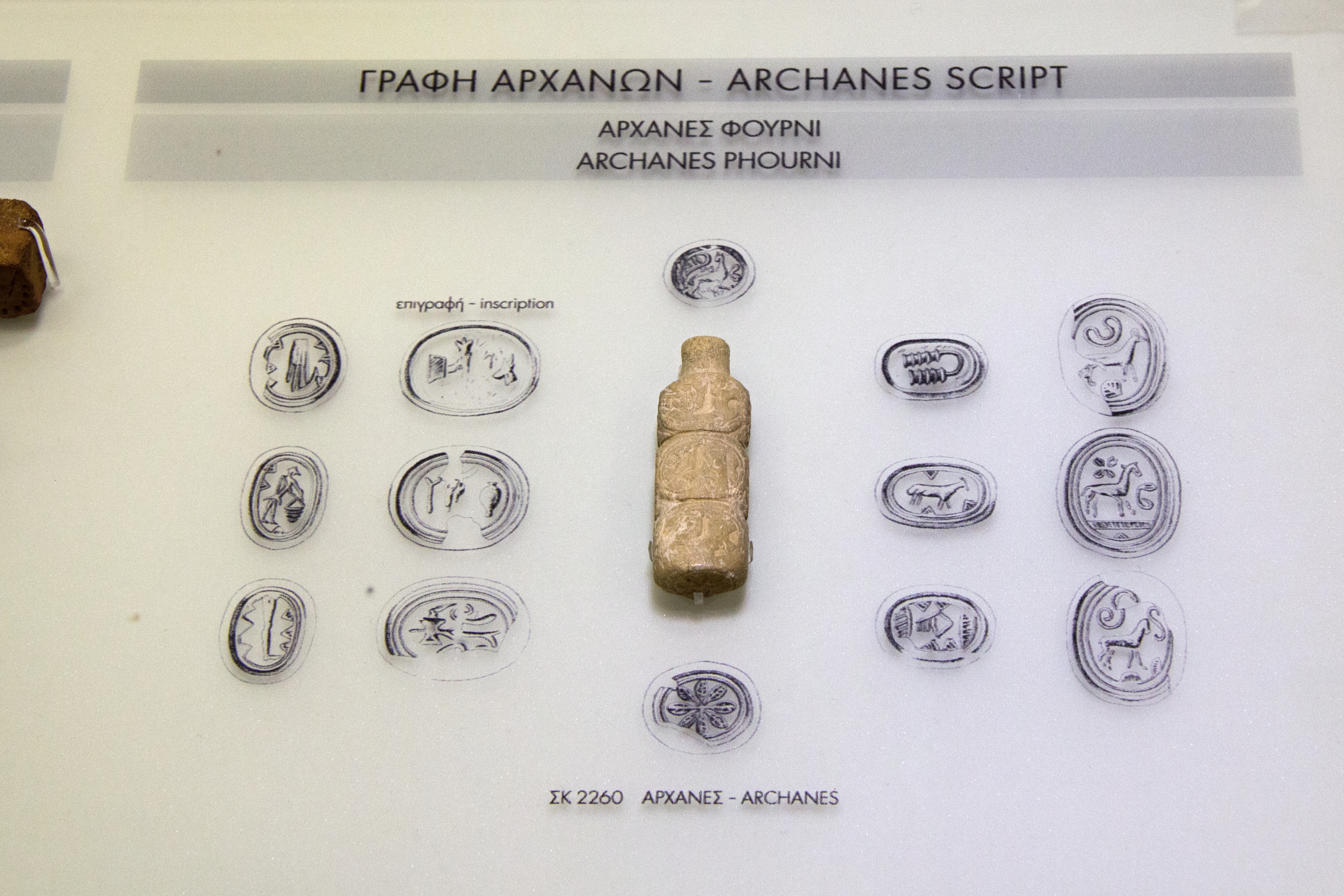 The Archanes Script. MM IA / MMIB, 2100-1800 BC. Unusual Cretan hieroglyphs. Arhcanes Phourni. Archaeological Museum of Heraklion, Sk 2260.